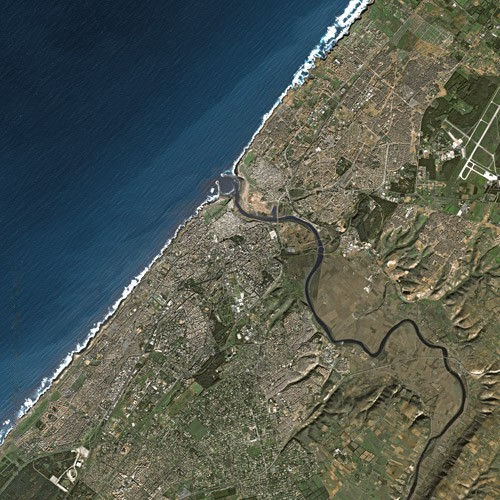 Rabat by SPOT Satellite